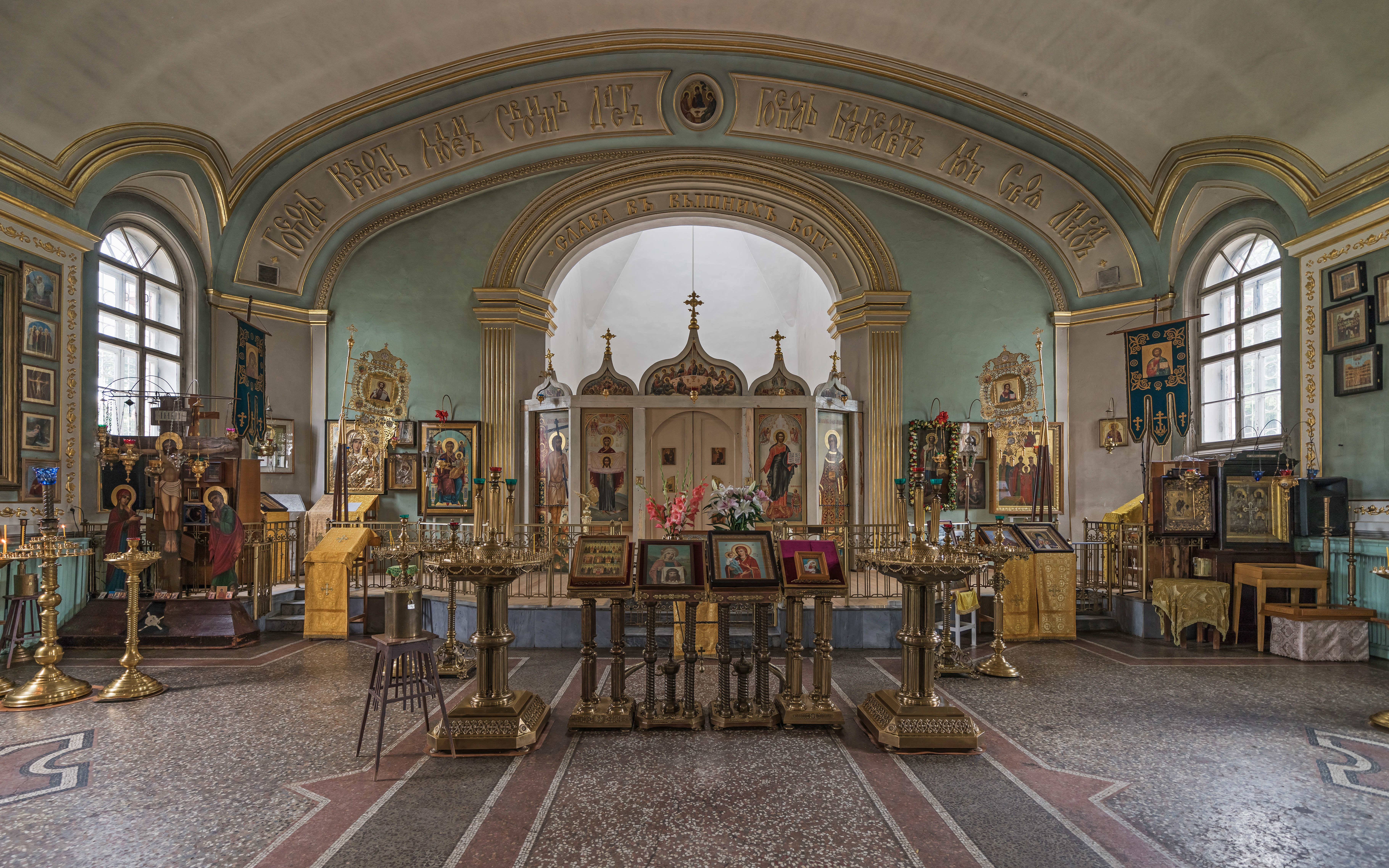 Interior of Alexander Nevsky Church in Pskov, Russia